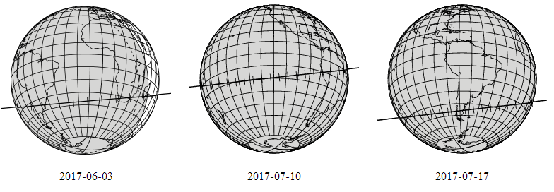 These are the 2017 stellar occultation predictions for the object 2014 MU69.